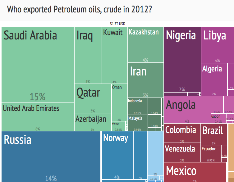 2012 Crude Oil Export Treemap